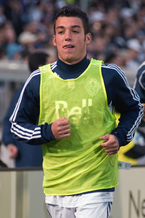 Picture of Russell Teibert. Wilson Wong photo.